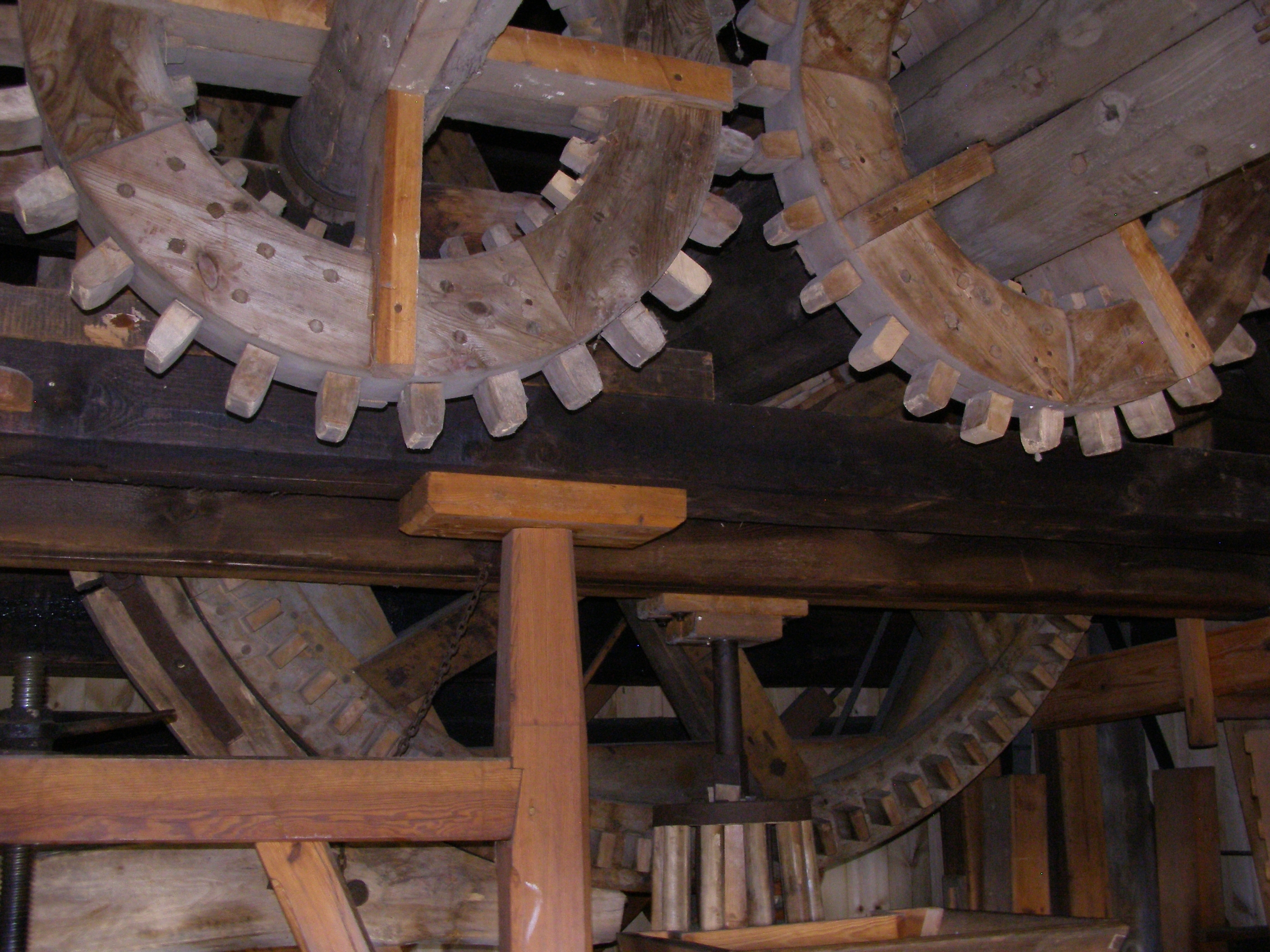 Wdzydze Kiszewskie - Kashubian Ethnographic Park - machinery of windmill from 1876, originally located in Jeżewnica